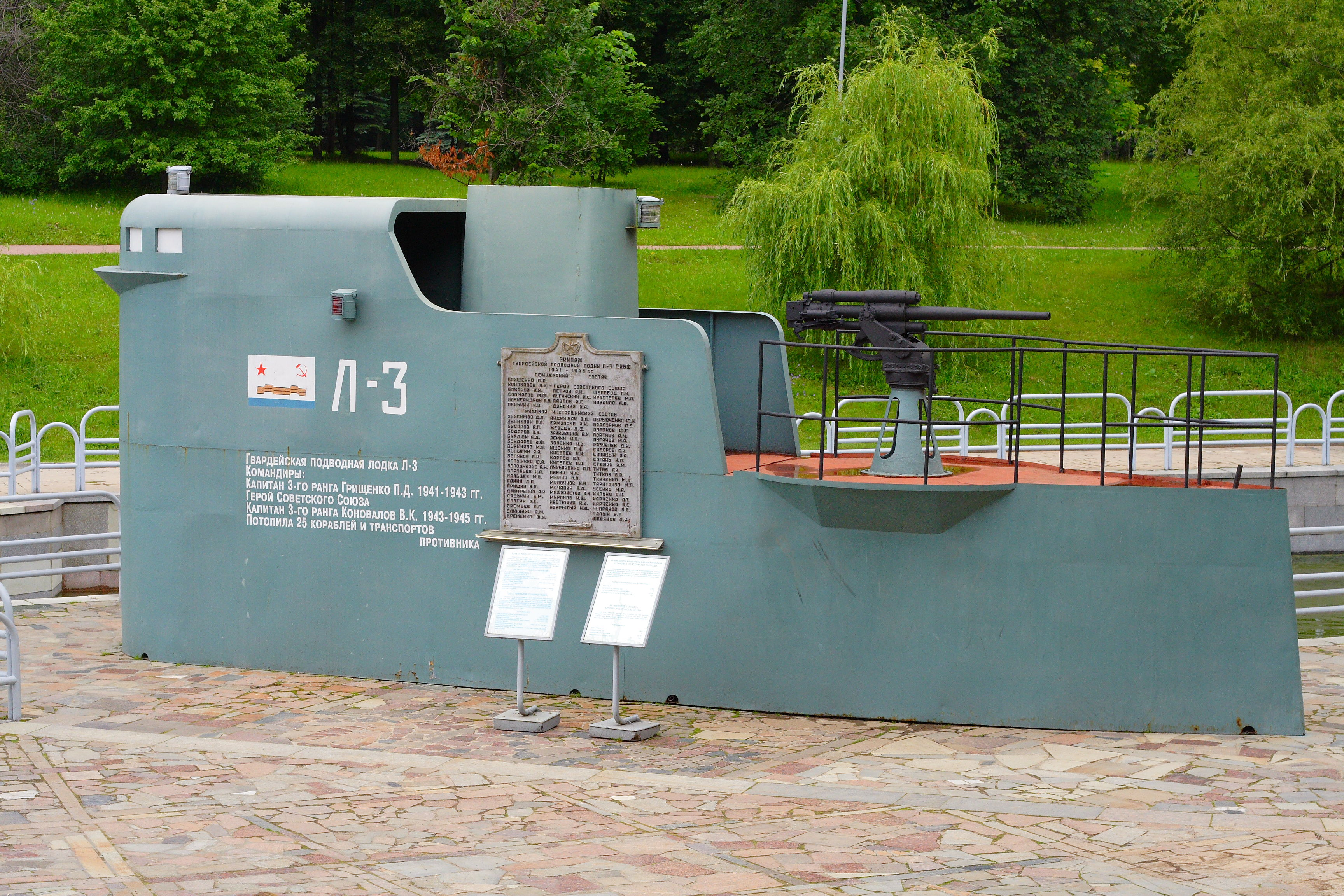 Cabin of a soviet submarine L-3, which exhibits in museum at Poklonnaya Gora, Moscow, Russia